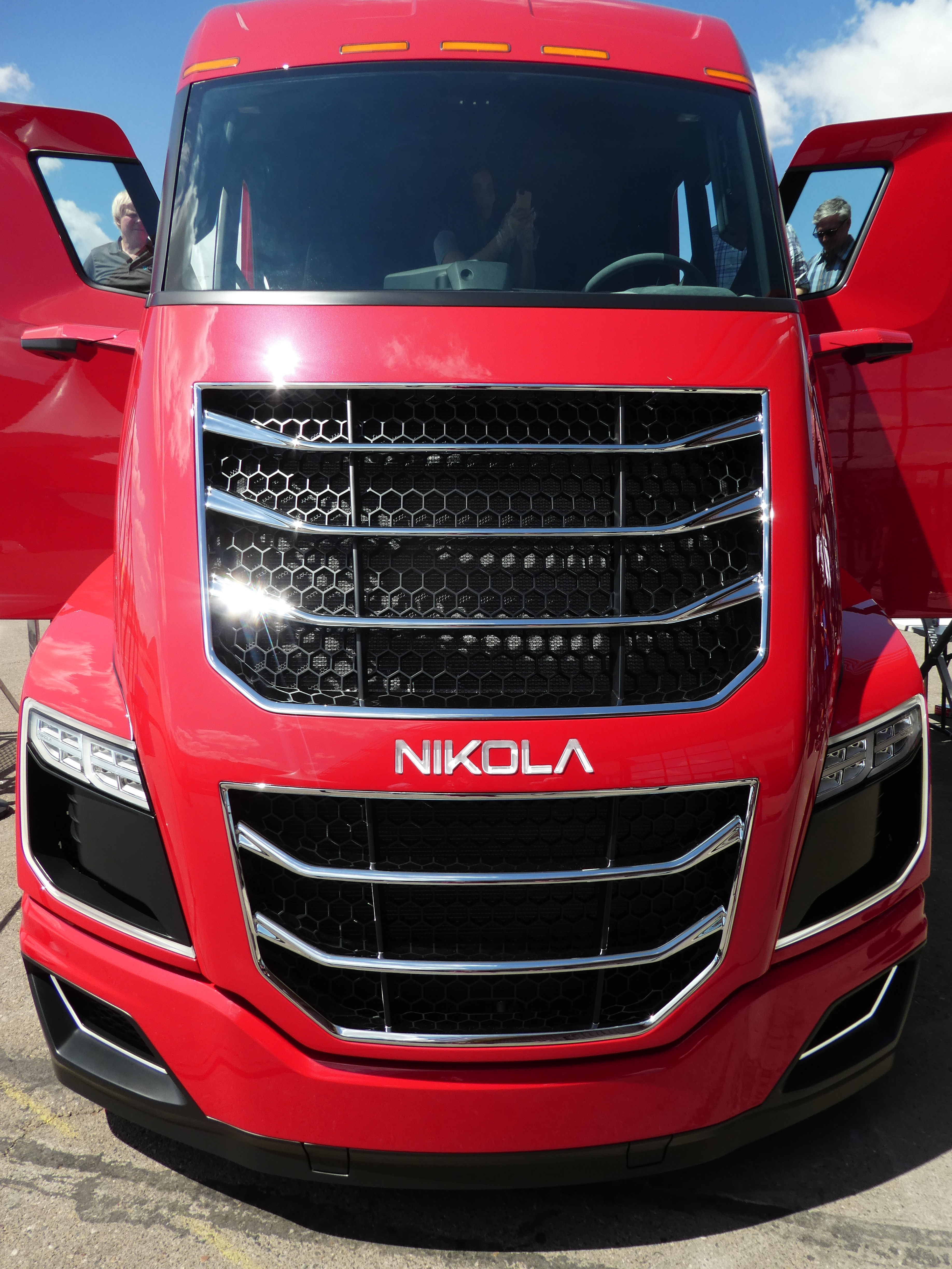 Nikola Motor Company, Two